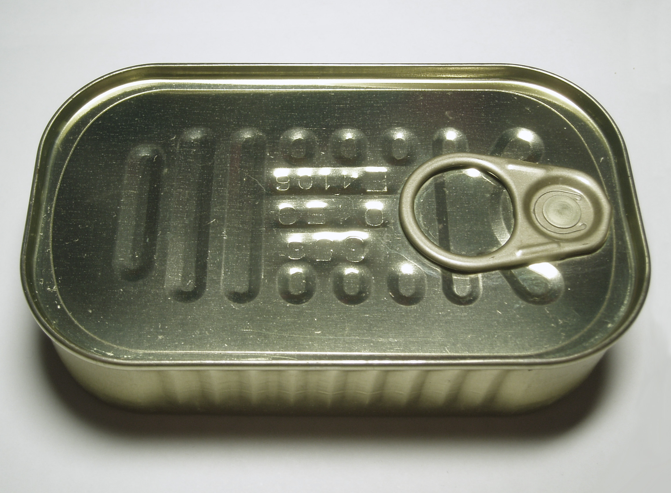 Canned sardines in salt water